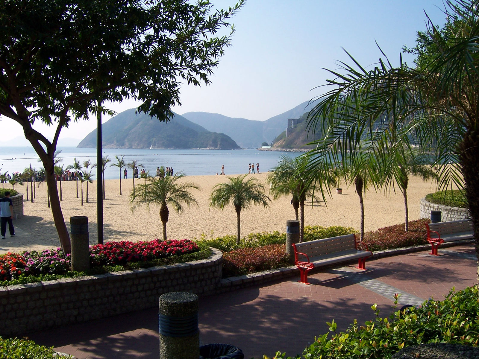 Taken at Repulse Bay. Taken by Enoch Lau on 2 January 2006. As a courtesy, please let me know if you alter this image or this image description page. Original filename was 100_1241.JPG.